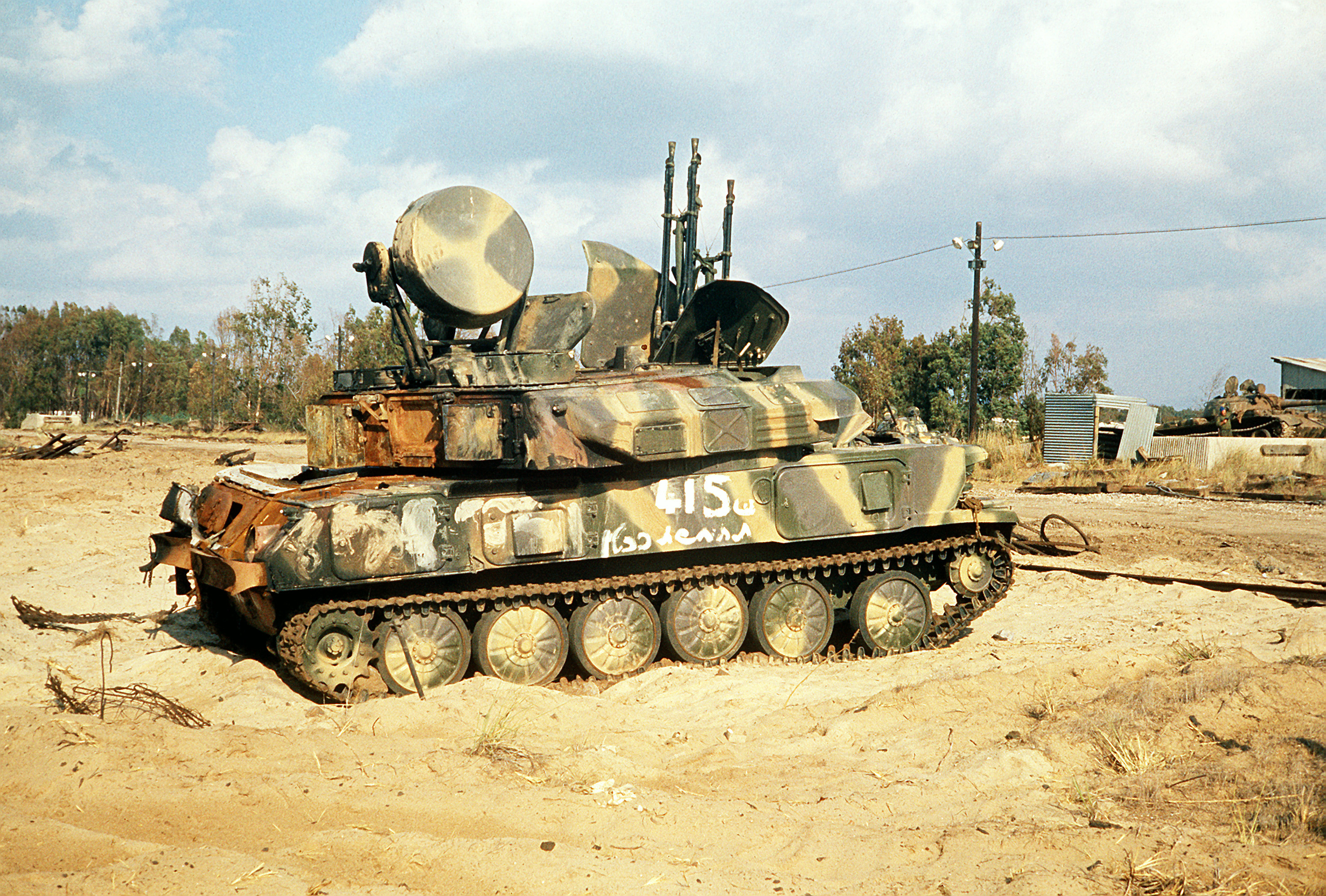 A right rear view of a Soviet-built ZSU-23-4 quad 23mm self-propelled anti-aircraft gun. A radar scanner is mounted on the turret.